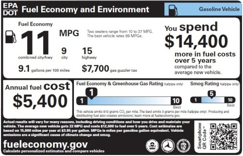 New fuel economy and environment labels for gasoline-powered vehicles (gas-guzzler)